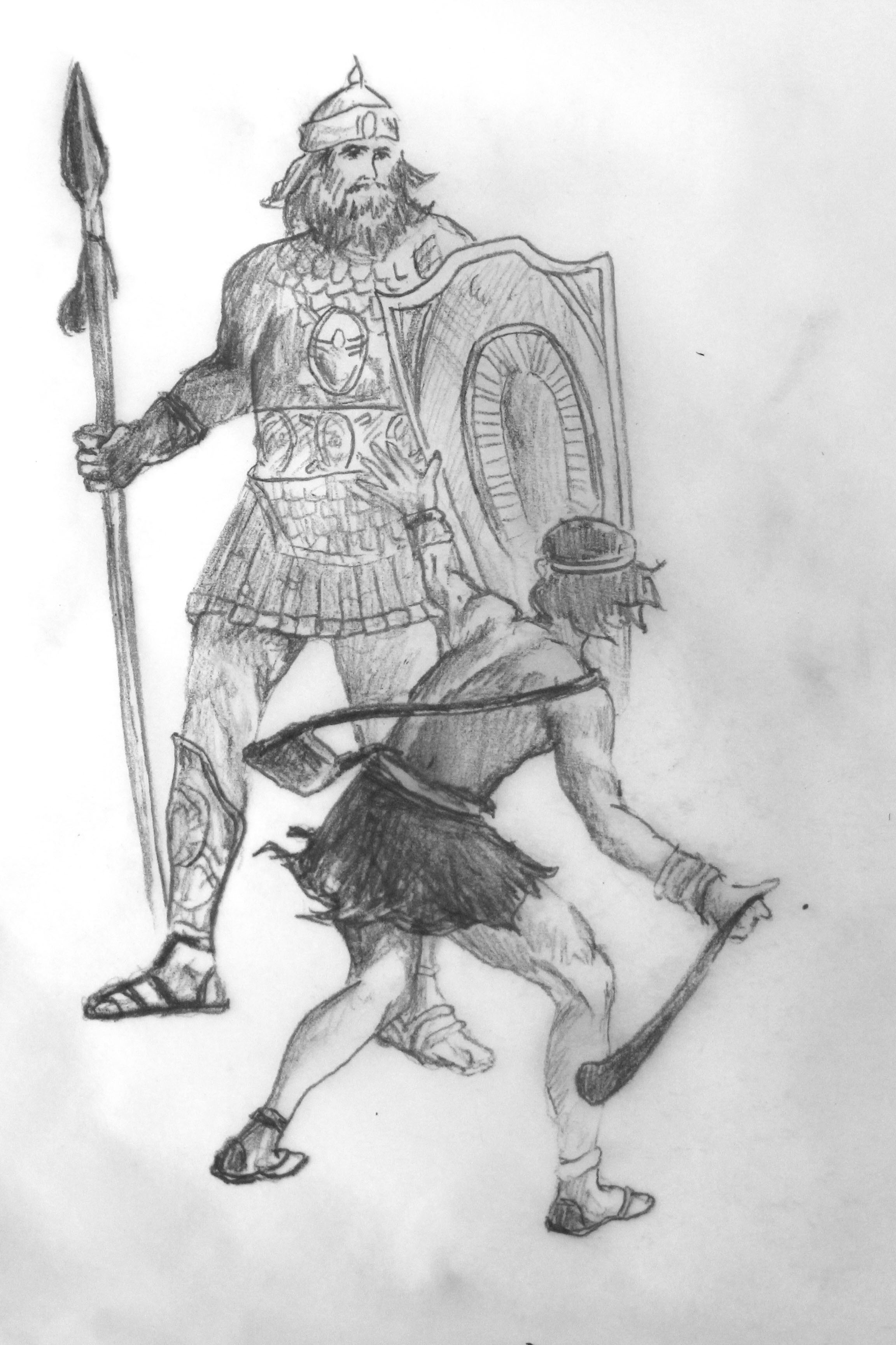 The narrative as depicted in the Masoretic Text.